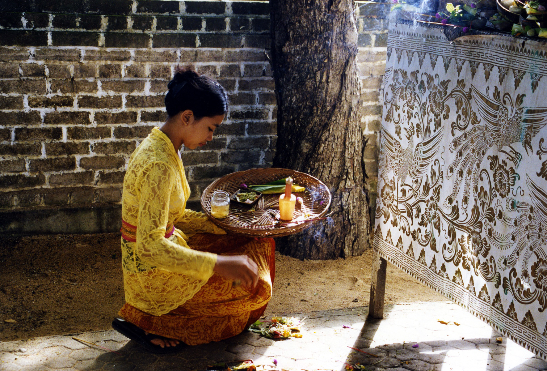 The tray has elements of traditional offerings